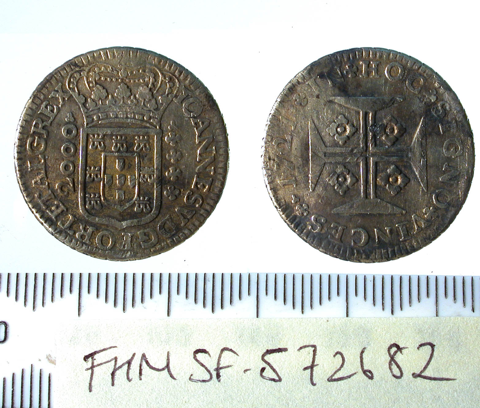 A gold Portugese half Moeda with a value of 2000 Reis, of King John V (Ioannes) of Portugal 1706-50. One Moeda or Moedore meaning 'Port. moeda da ouro' or 'money of gold,' is normally worth 4000 reis, this type of coin is also sometimes called a crusado or cruzado because of the cross on the reverse, 1 crusado is worth 400 reis so our half moidore which is worth 2000 reis is 5 crusados. [portugal]